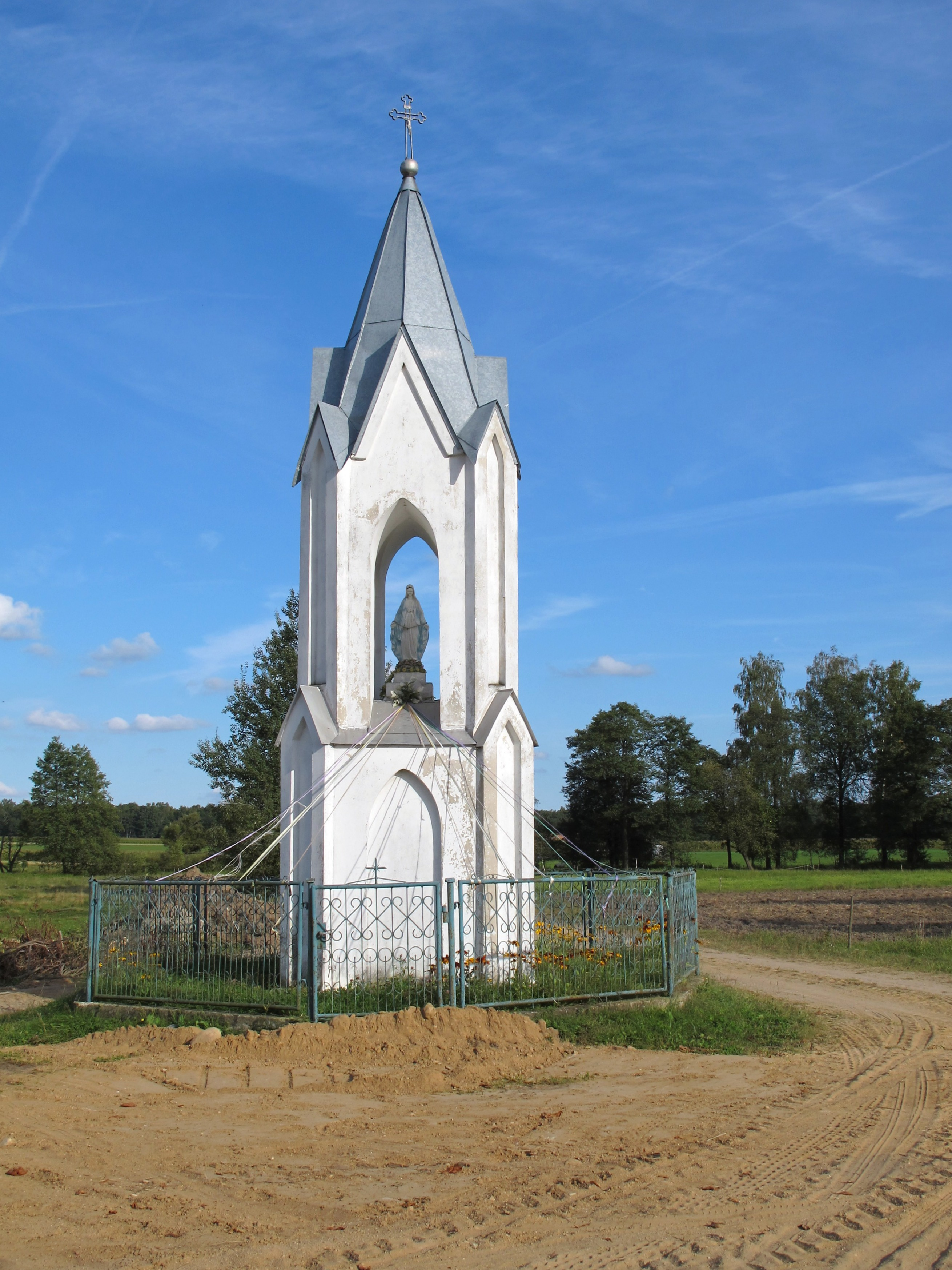 Shrine near Poletyły village, gmina Brańsk, podlaskie, Poland